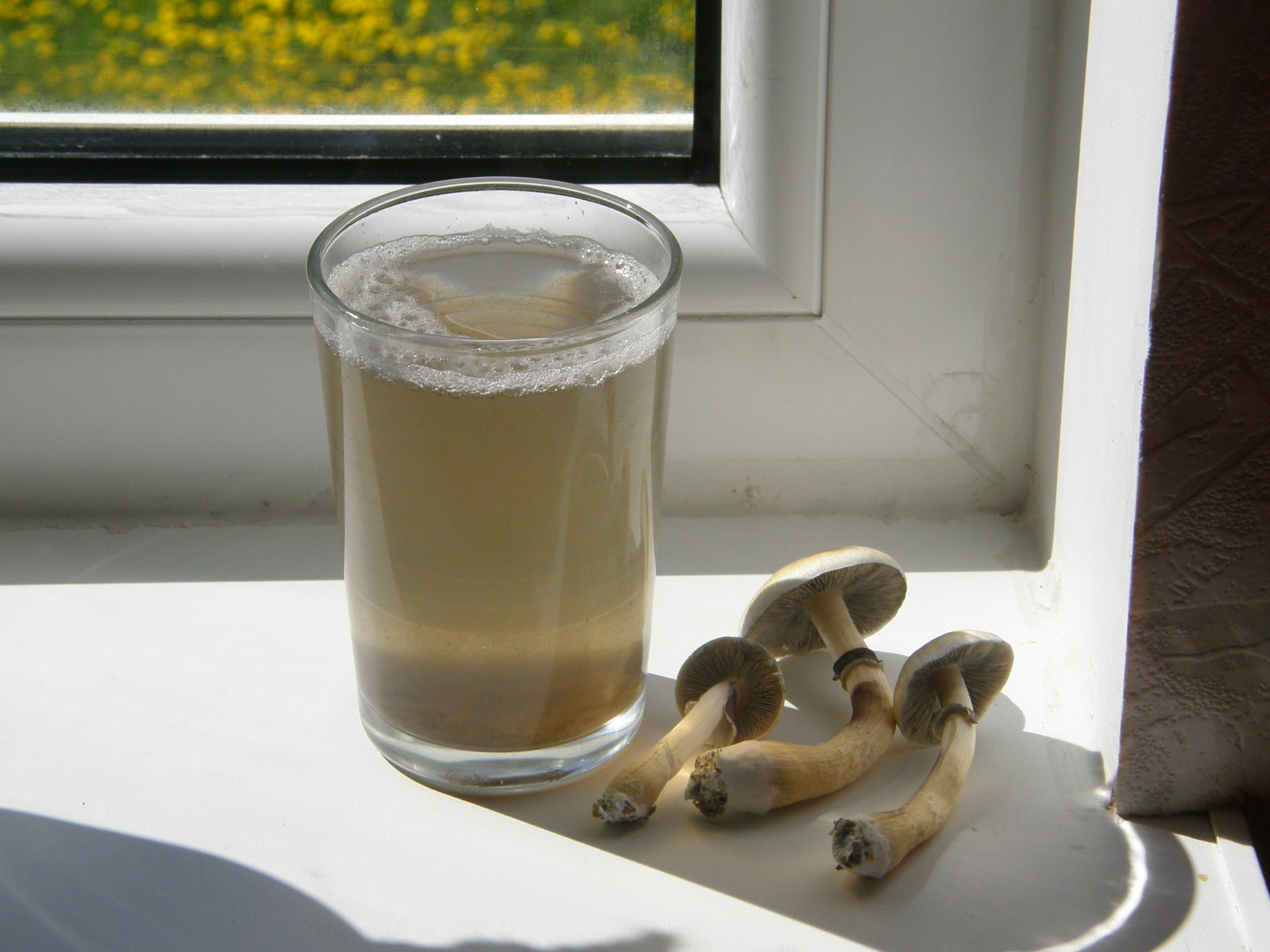 Magic mushroom tea (made of Psilocybe cubensis)